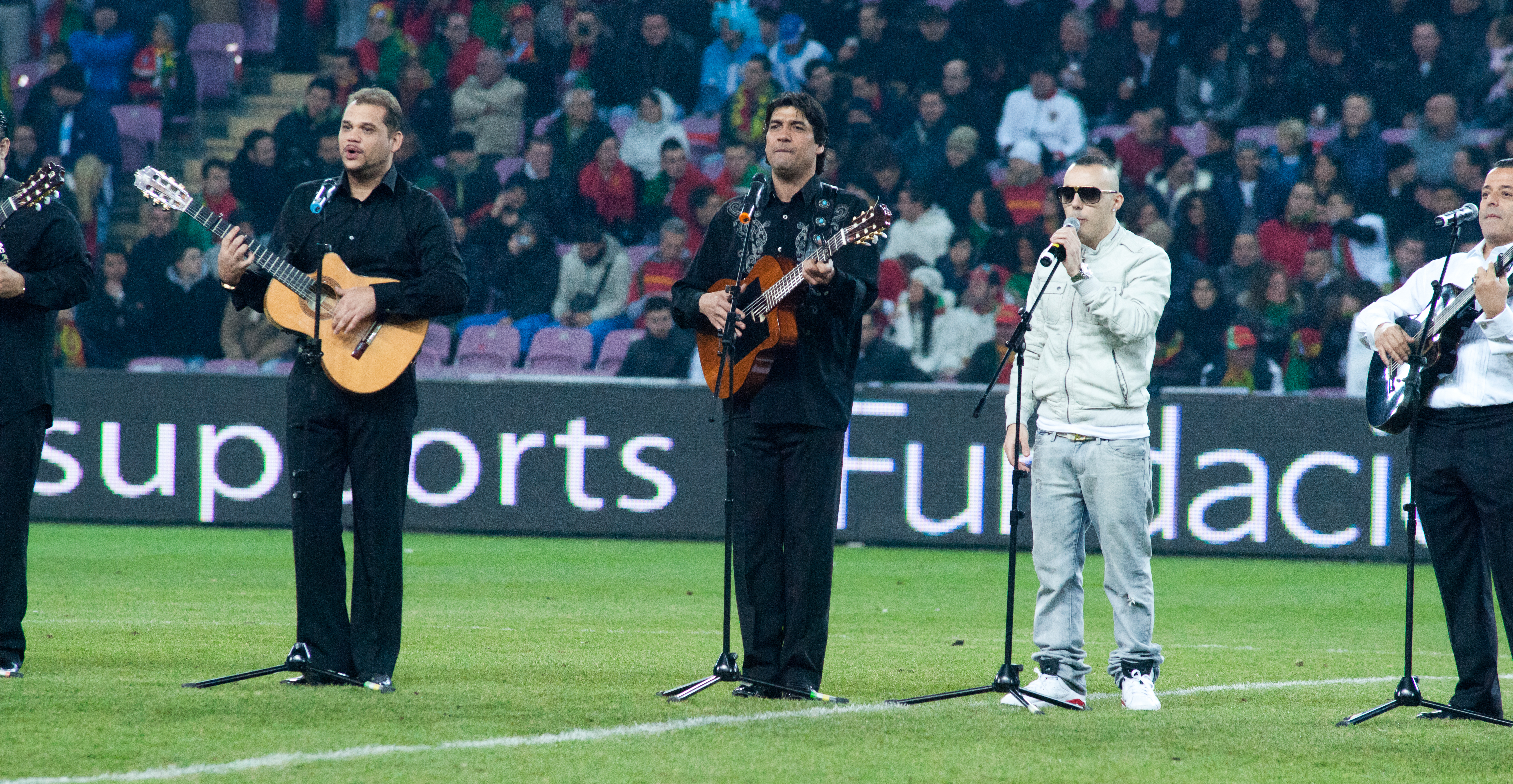 The making of this document was supported by Wikimedia CH. (Submit your project!) For all the files concerned, please see the category Supported by Wikimedia CH. Portugal vs. Argentina, 9th February 2011